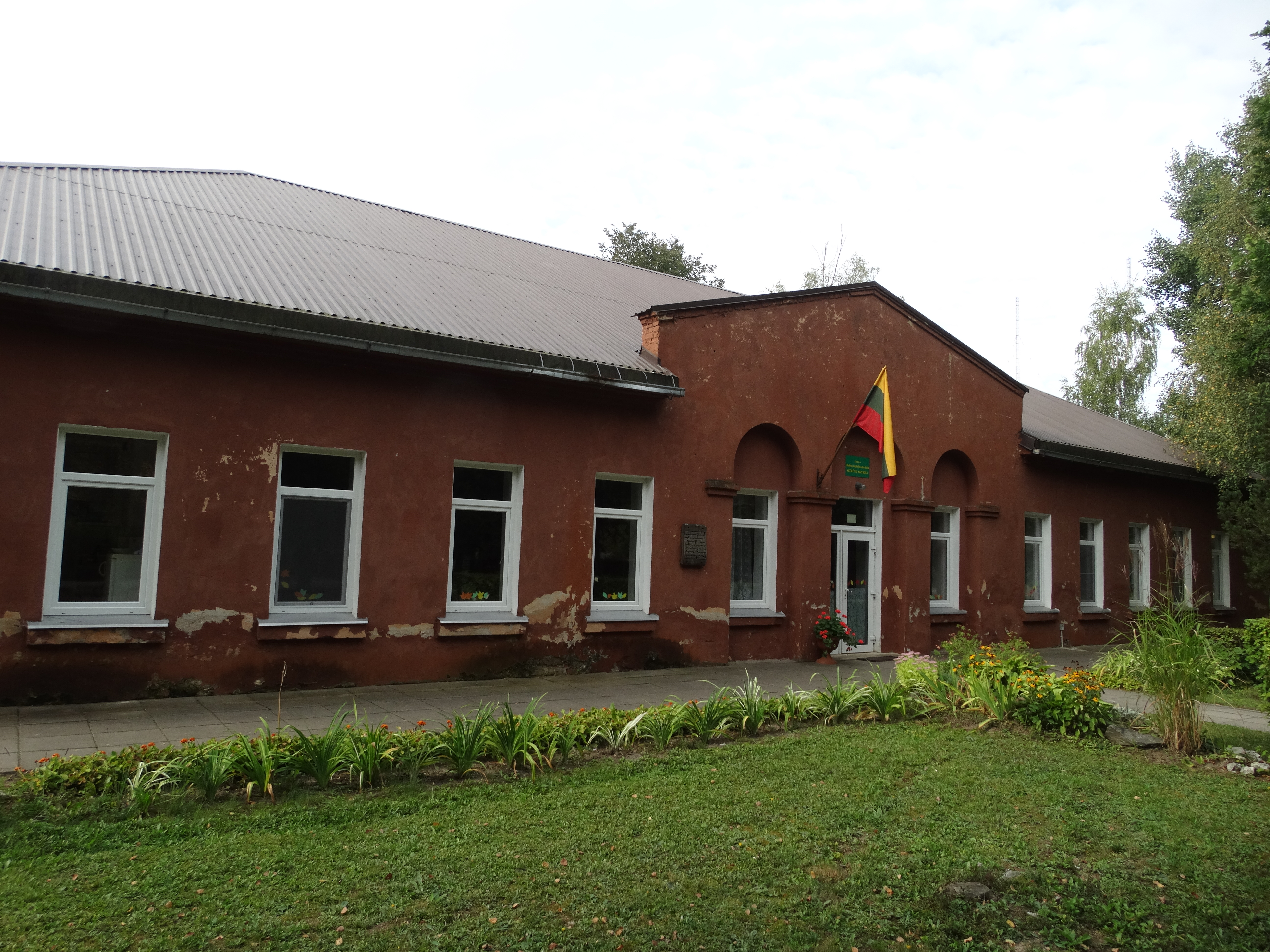 Sitkūnai, school, Kaunas district. Lithuania